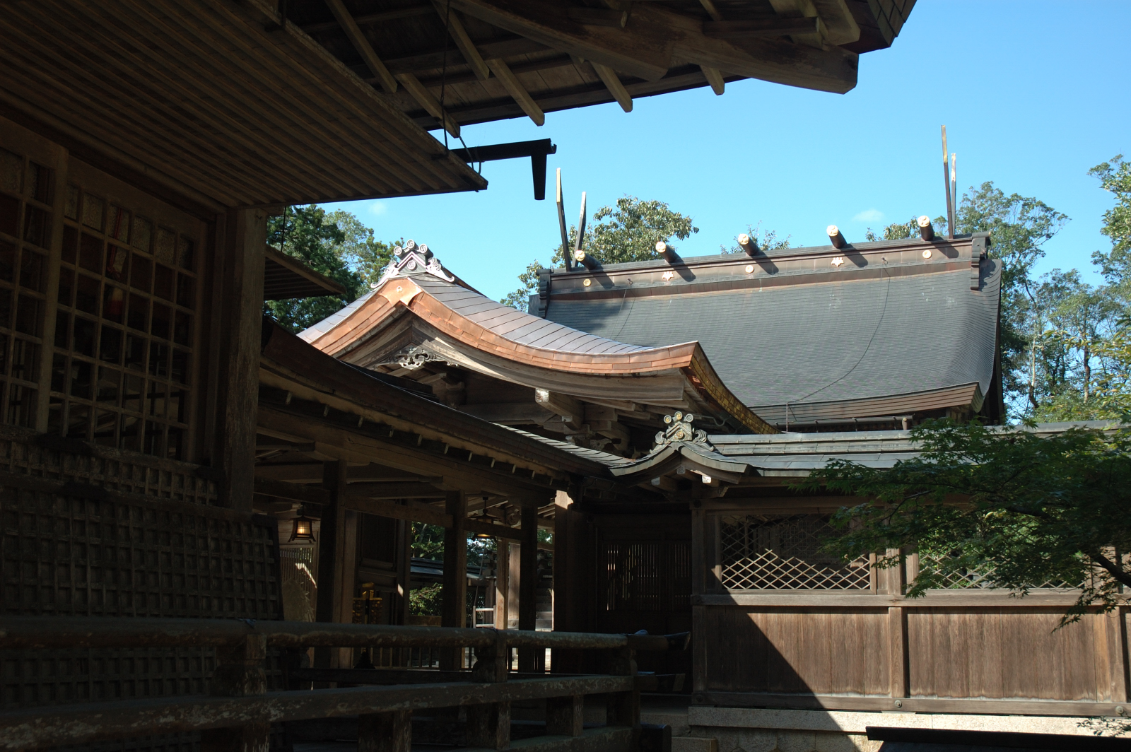 main shrine